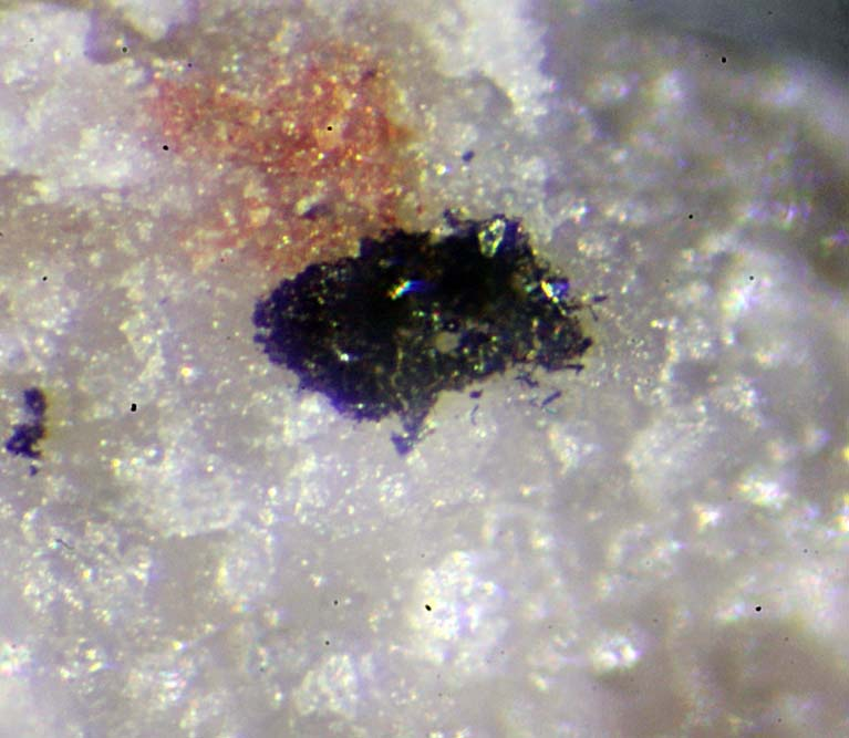 A lot of small almost black microcrystals of the extremely rare capgaronnite in a white contrasting matrix. From: Frischer Muth Mine, Eiserfeld, Siegen, Siegerland, Rhineland-Palatinate, Germany. Capgaronnite has only been found in six localities worldwide. It is one of the very few minerals with Bromine (Br) and Iodine (I) in its composition. In fact, from more than 5500 known minerals, only 17 have Bromine in its composition, only 26 have Iodine and only 6 have Bromine and Iodine at the same time in its composition (from MINDAT database), so this is a real rarity! Analyzed specimen.